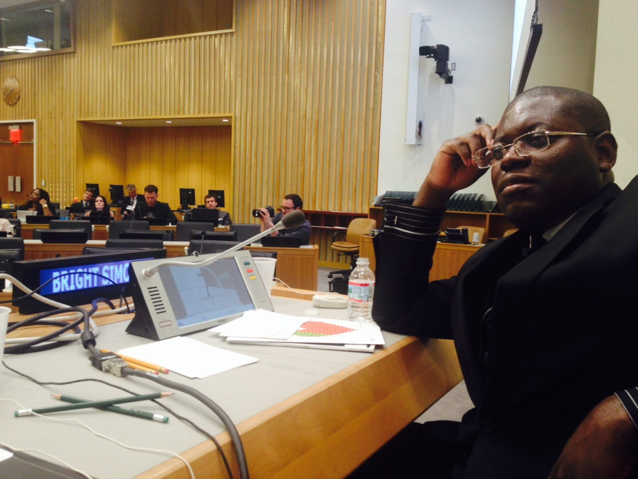 Bright Simons speaks on Facts-based Activism (Factivism) During the 2013 UN General Assembly Meetings in New York.